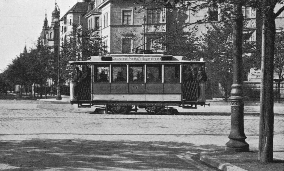 A Munich tram from 1898 at Beethovenplatz